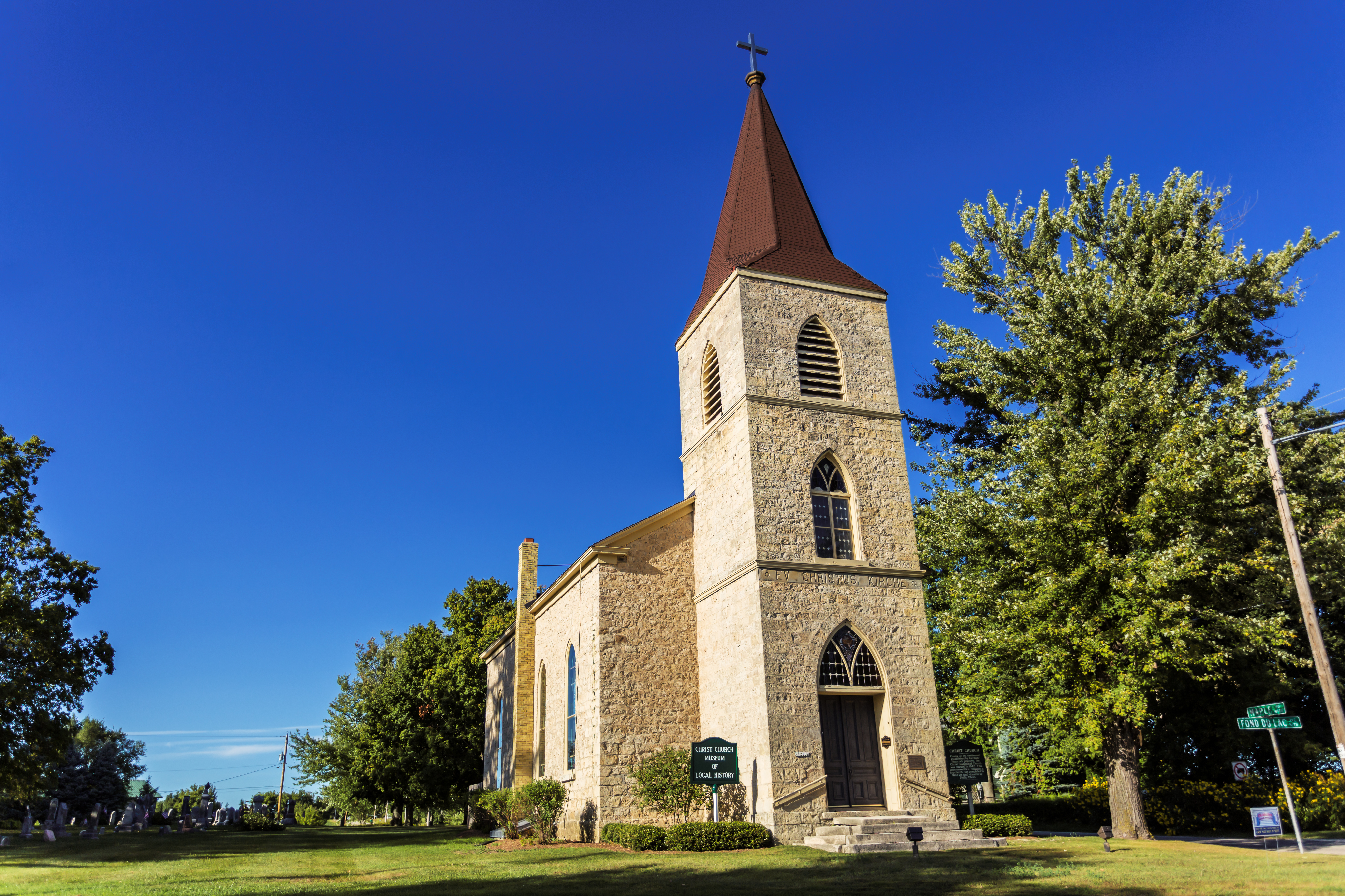 Christ Evangelical Church, W188 N12808 Fond du Lac Avenue Germantown